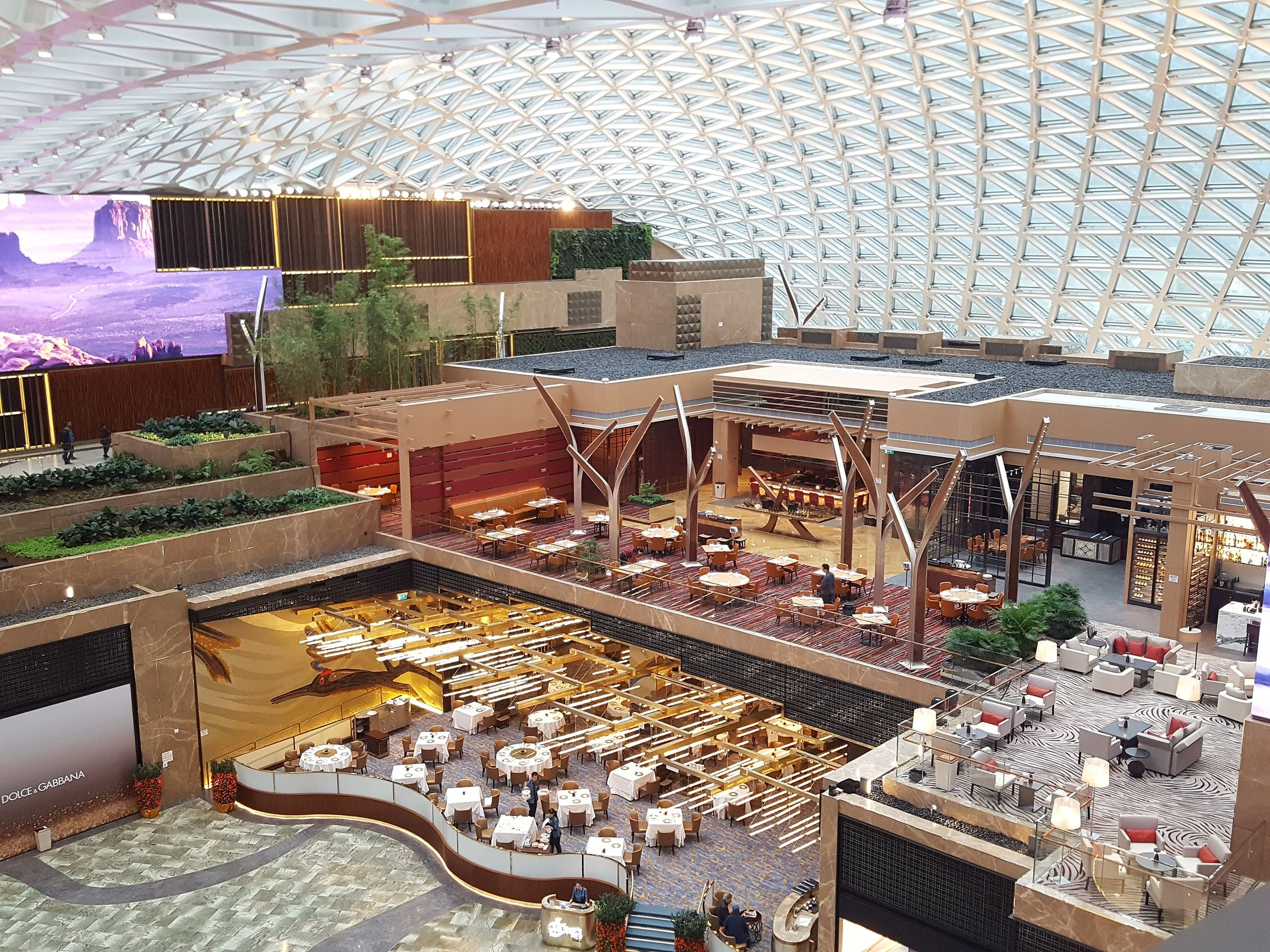 Square of MGM Cotai